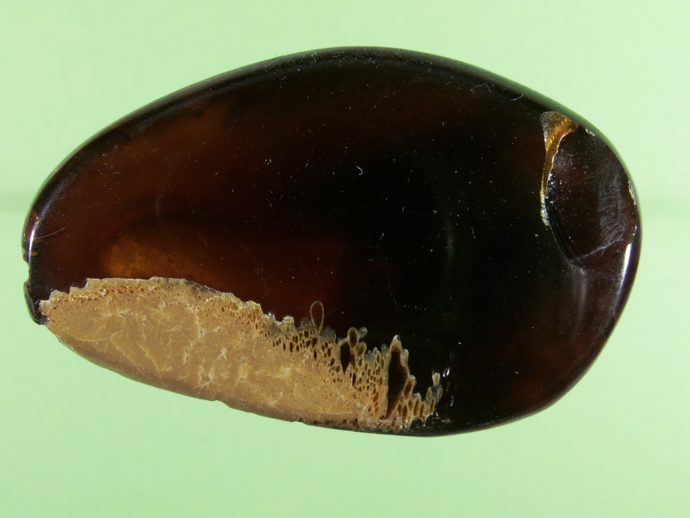 Amber from Bitterfeld, glessite